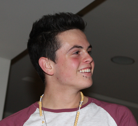 Janoskians appearance at Liverpool, Westfield